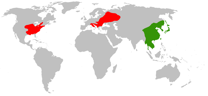 Approximate distribution of Commelina communis. Native range is in green, Introduced range is in red. Based on Flora of North America, Flora Europaea, Flora of China, Flora of Taiwan, Flora of Japan, and Neo-lineamenta florae Manshuricae